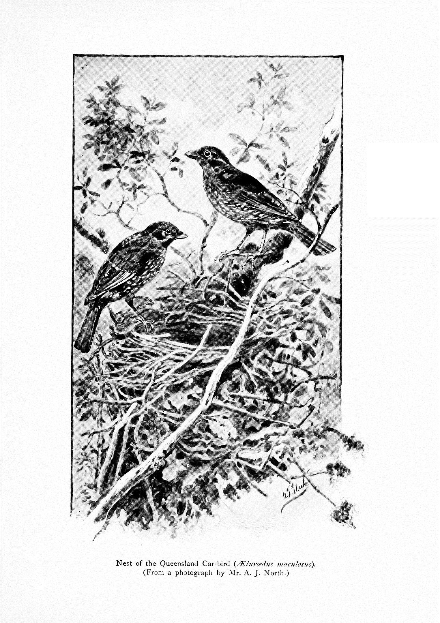 Nest of the Queensland Car-bird (Aeluraedus maculosus) (from a photograph by Mr. A. J. North.)